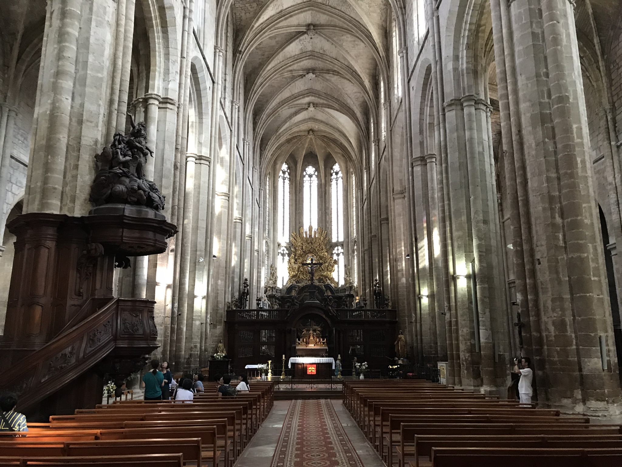 Interieur van de gotische basiliek van Maria Magdalena in Saint Maximin, Zuid Frankrijk